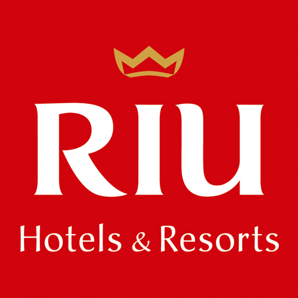 RIU Hotels & Resorts Logo